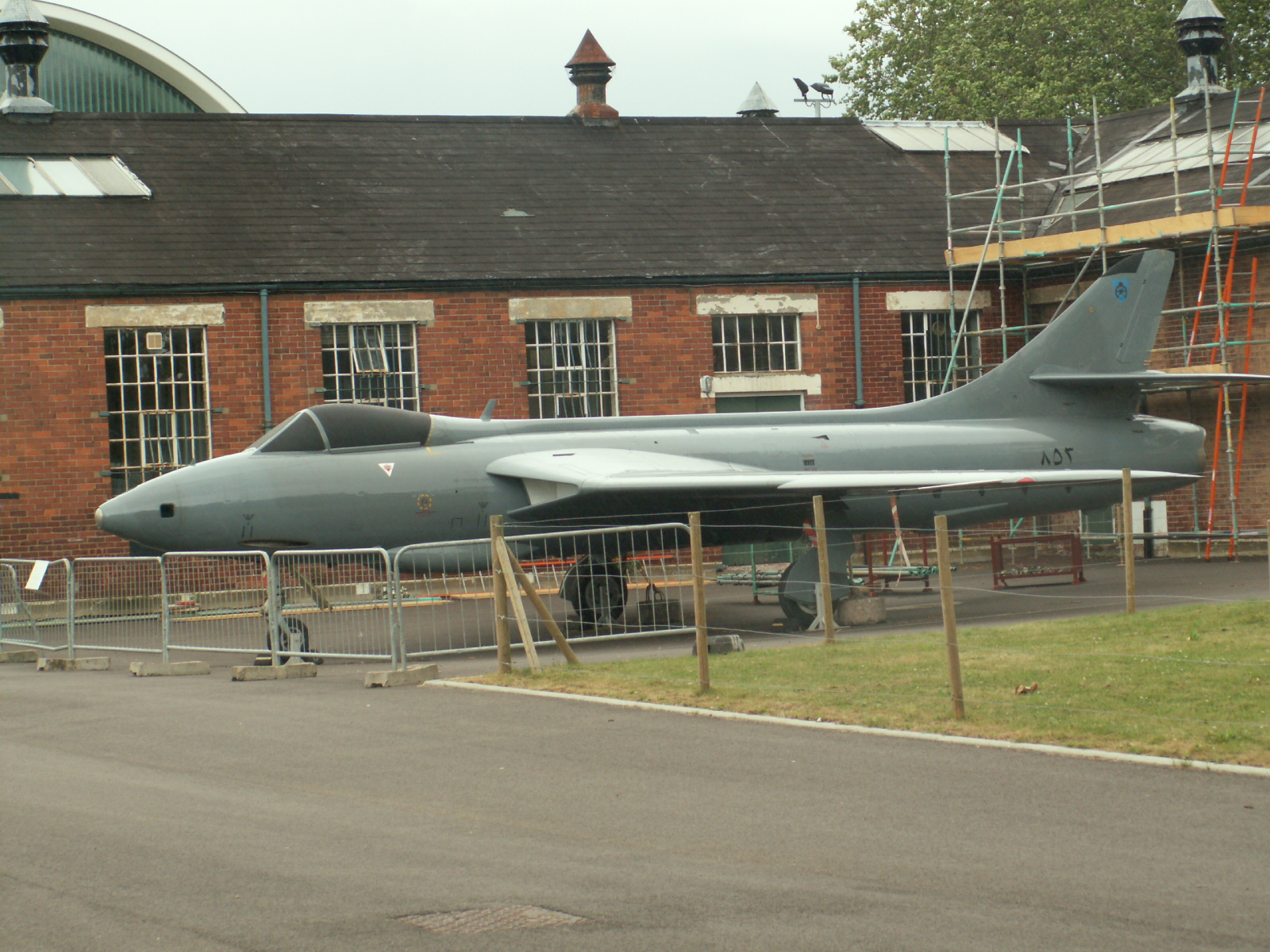 Royal Omani Air Force Hawker Hunter at RAF Museum in Hendon